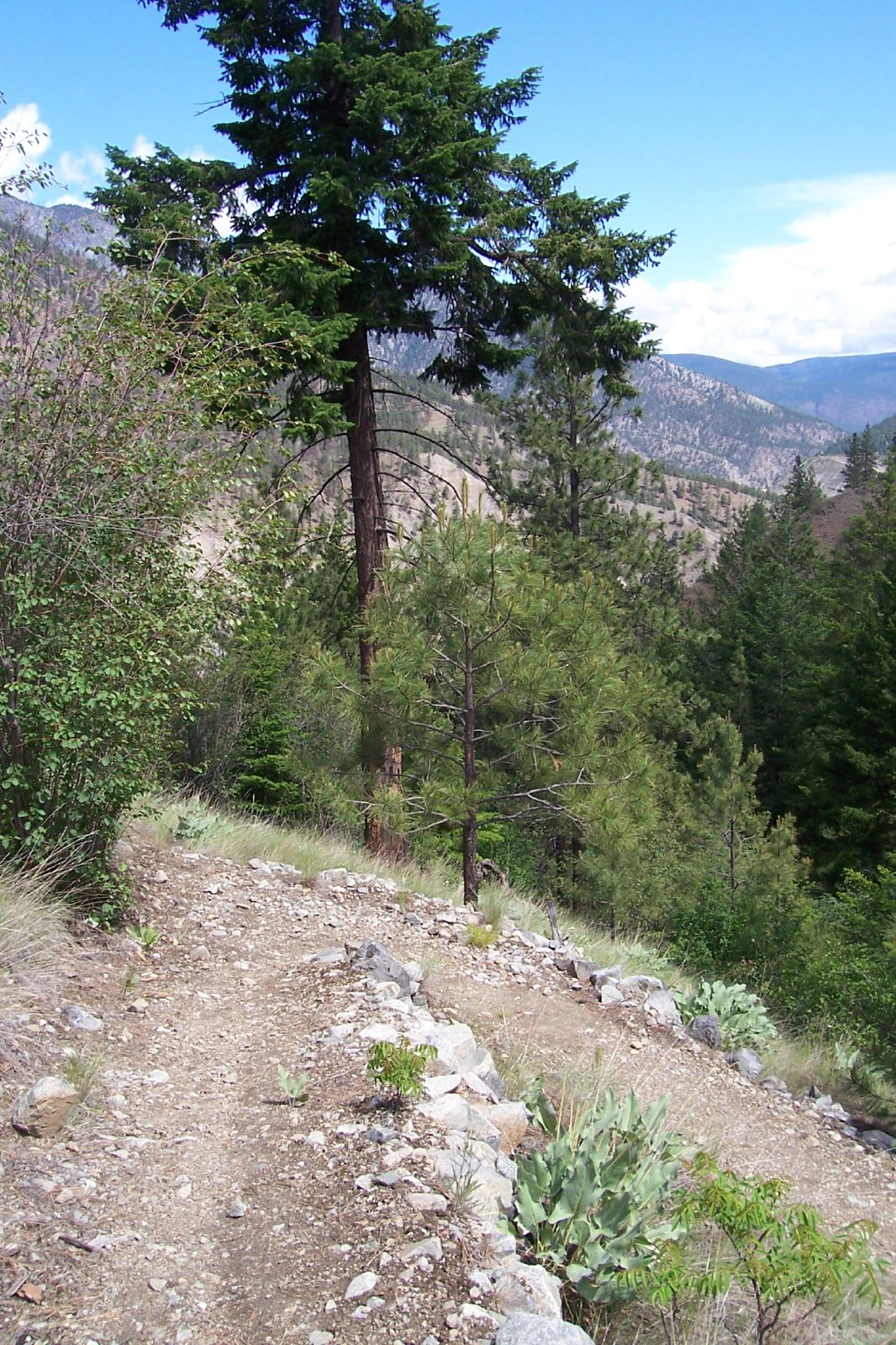 A well built trail, switch backs for easy walking.